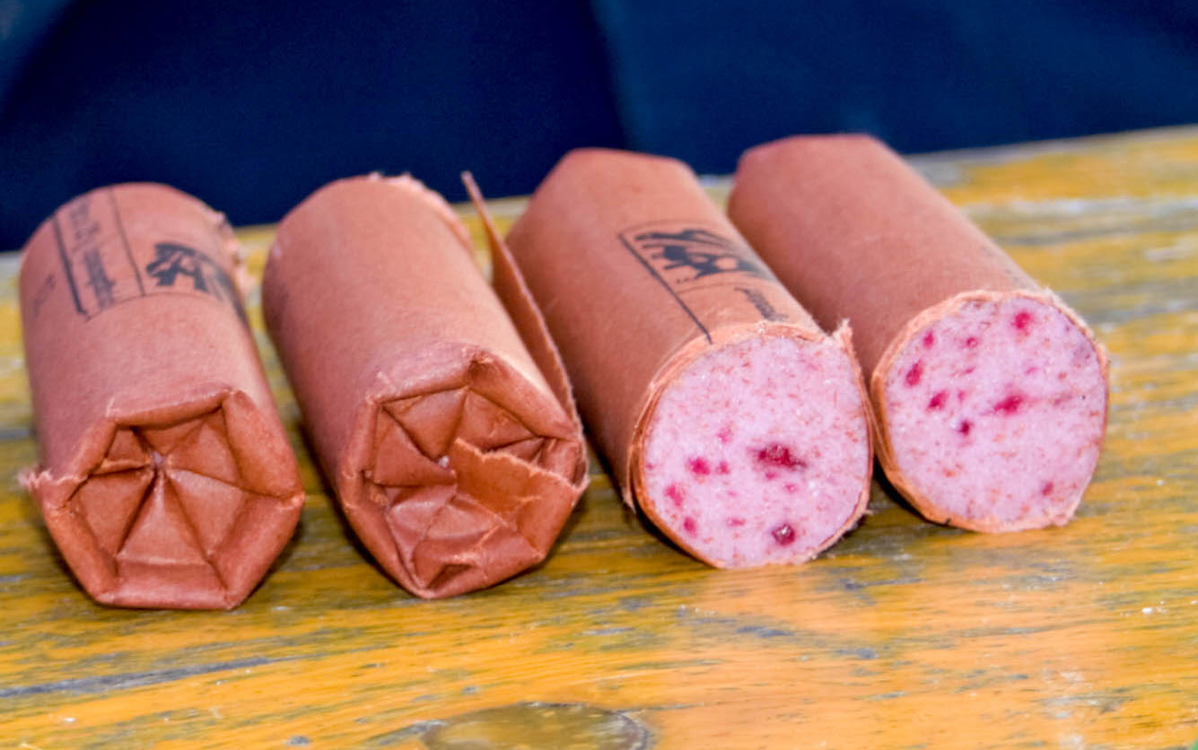 Explosive (Eurodyn 2000)